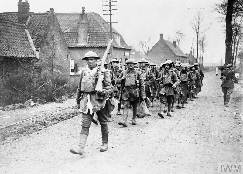 Battle of the Lys: Men from a battalion of the 55th Division marching through Bethune on their way back from the trenches for rest, 10 April 1918. (provided date likely incorrect as on that day the division would have still been in battle, more likely photographed between 16-18 April)